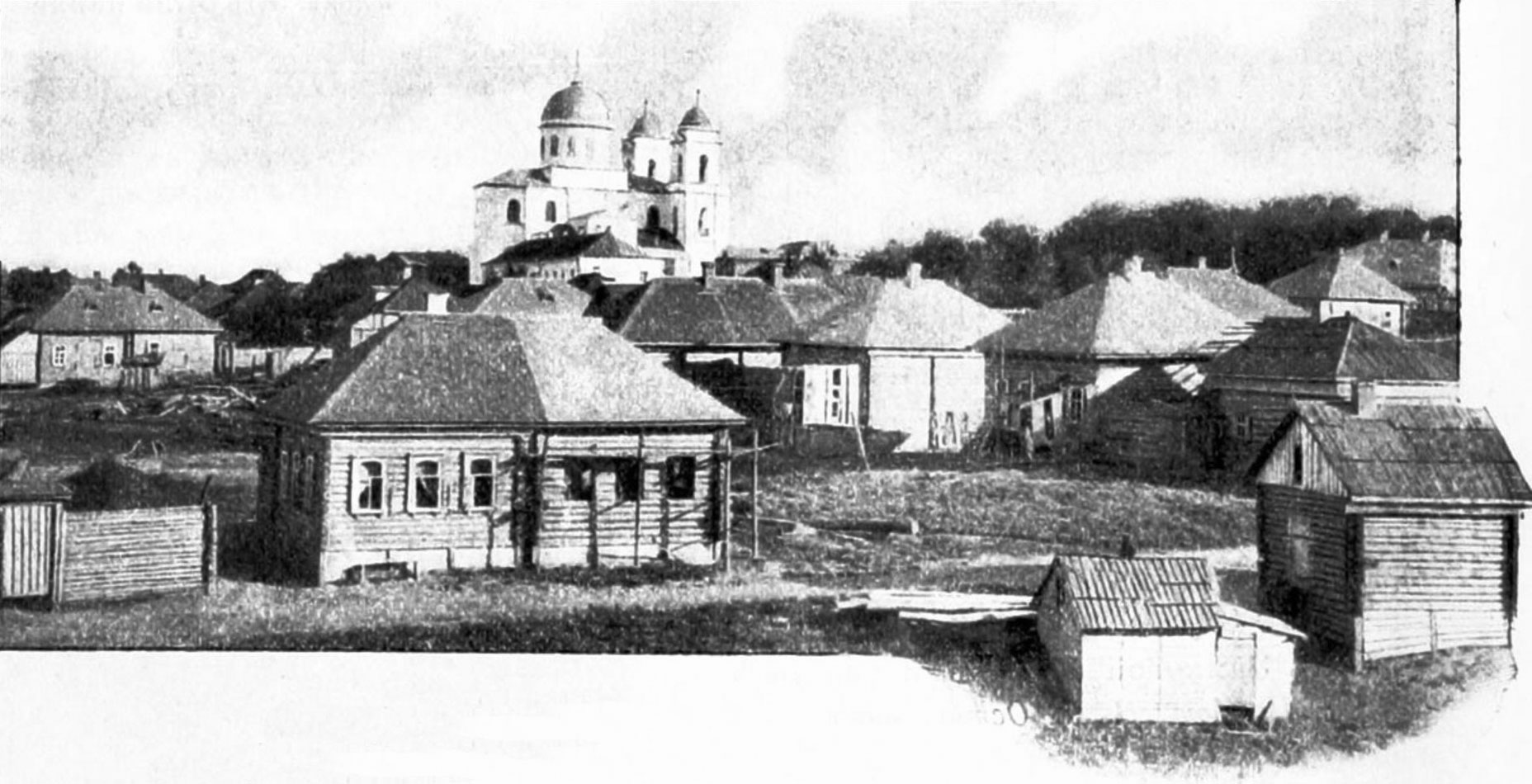 Mstislaw, catholic church of Saint Michael Archangel.